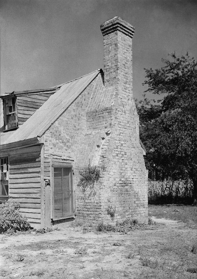 Huggins House in Princess Anne County, VA